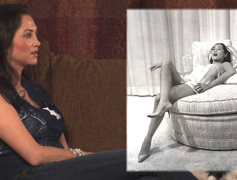 At left, Sandra Allen being interviewed from the contemporary stage show of Flower Drum Song. At right, Nancy Kwan cheongsam scene in The World of Suzie Wong